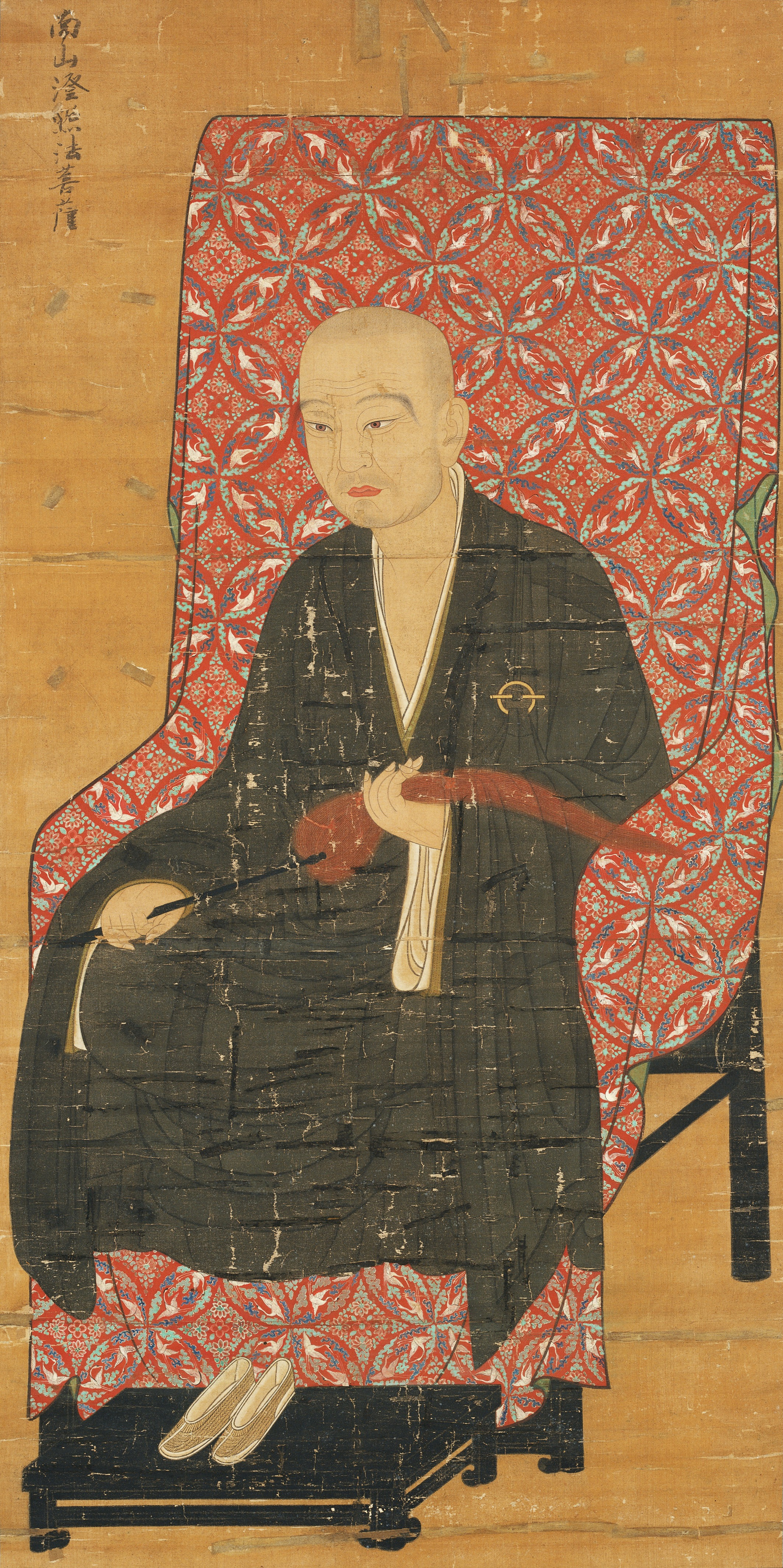 Daoxuan (Dosen Risshi), Nara National Museum, Japan